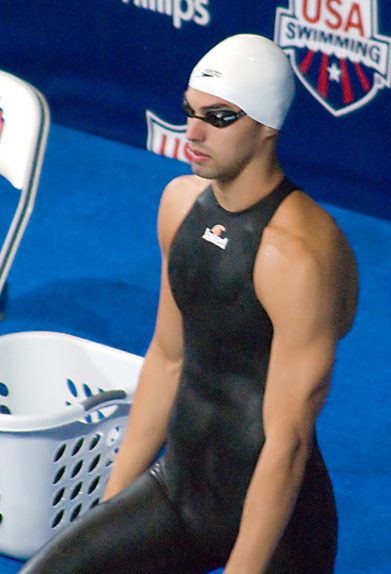 Berens in 2009 at the trials to the world championships.